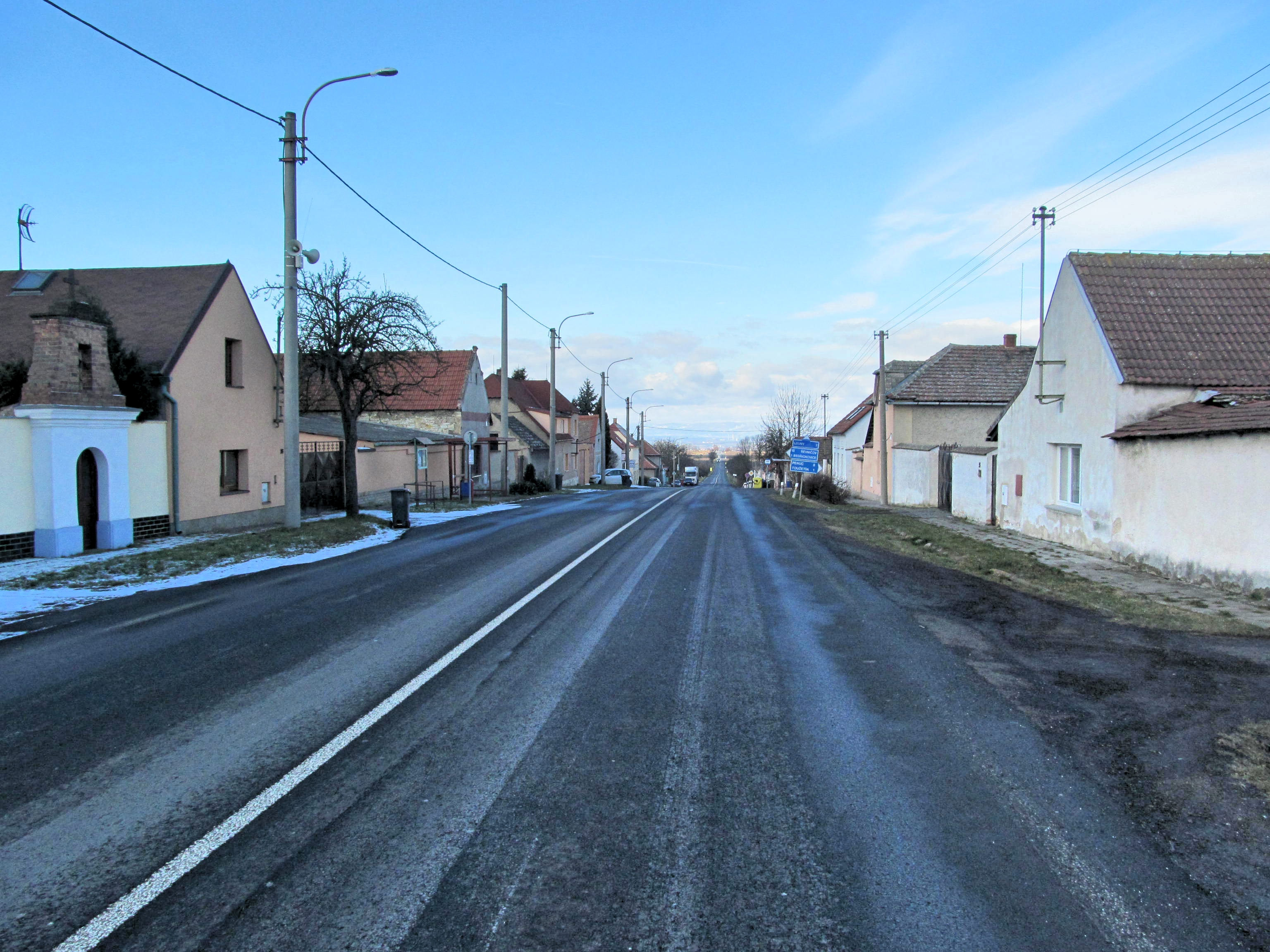 Through street in Sulec